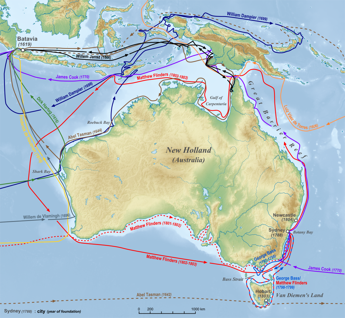 Map of European exploration of Australia in the years before 1813 Exploration in chronological sequence: 1606 Willem Jansz 1606 Luís Vaz de Torres 1616 Dirk Hartog 1619 Frederick de Houtman 1644 Abel Tasman 1696 Willem de Vlamingh 1699 William Dampier 1770 James Cook 1797-1799 George Bass 1801-1803 Matthew Flinders